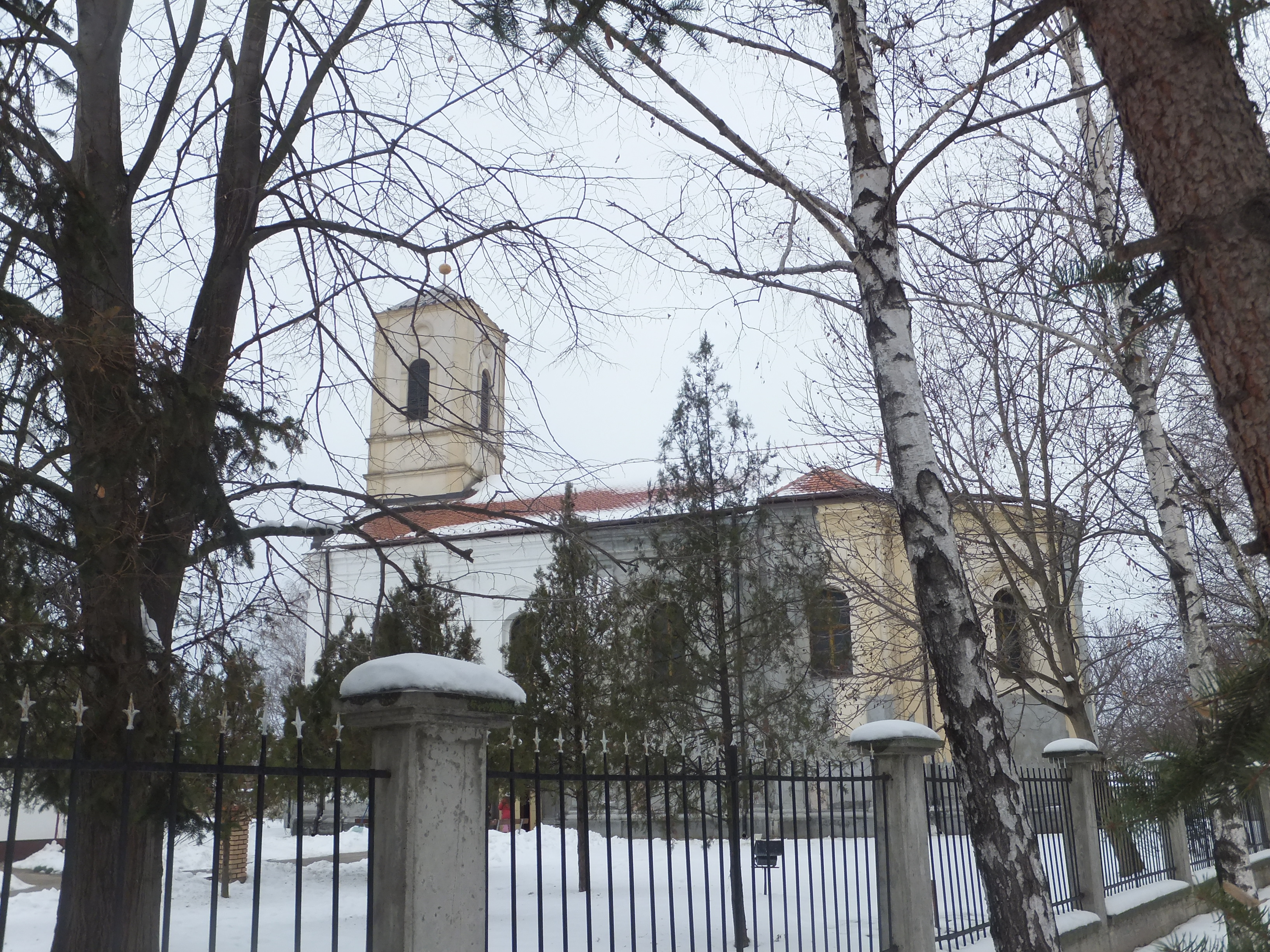 Church of Saint Nicholas in Kraljevci